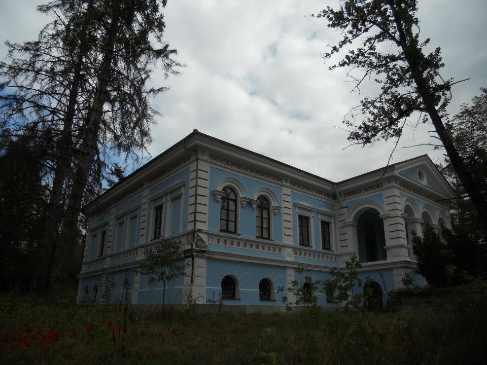 Image of the Balioz mansion in Ivancea, Orhei District, Republic of Moldova